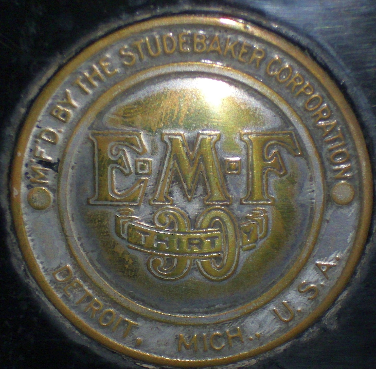 Emblem EMF. "Mfd. by the Studebaker Corporation" indicates a car built after the take-over of the company in 1912.